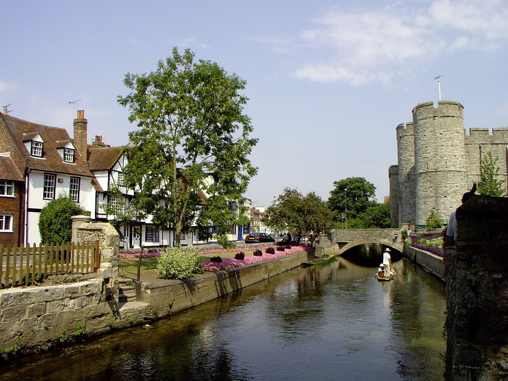 The River Stour runs through Westgate Gardens, Canterbury. The river skirts the route of the old city walls, and the stone towers of the city's west gate (still used by traffic) can be seen on the right.